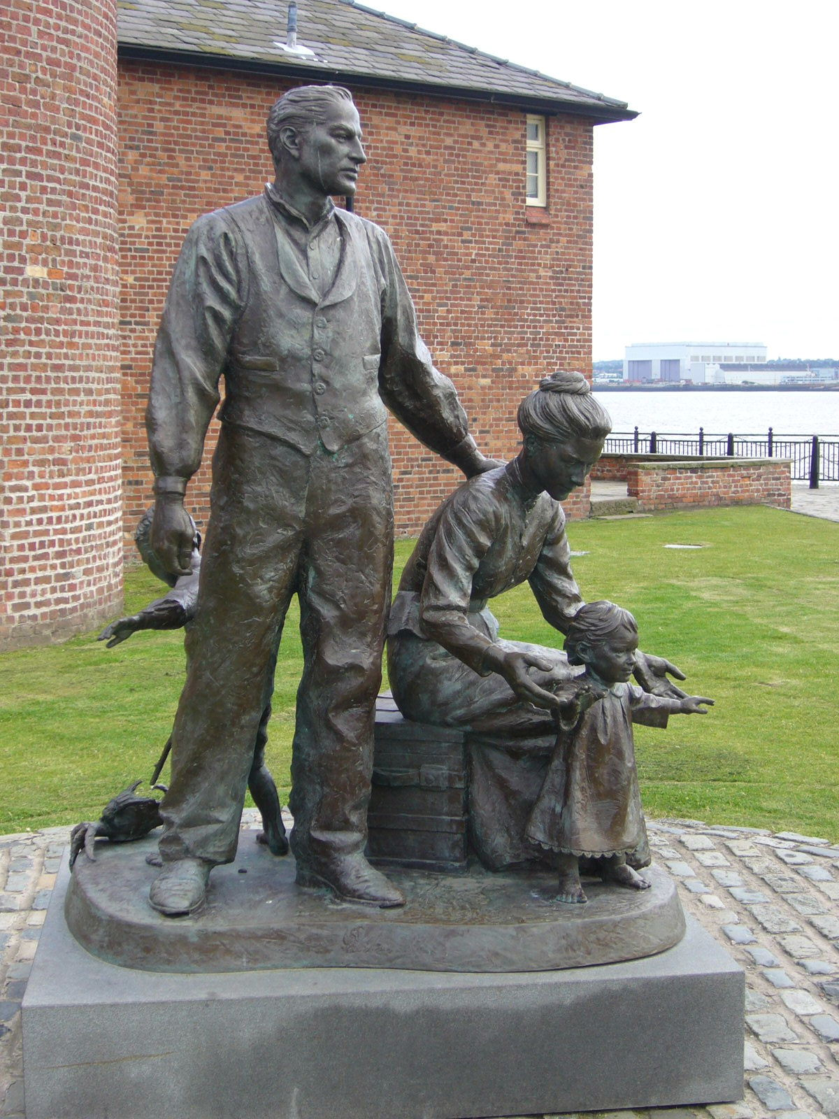 This statue stands at grid reference SJ 339 898 right beside the River Mersey and the entrance to the Canning Half Tide Dock and near Hartley Quay, Liverpool. The Pilotage Building is in the background. A board nearby reads: “Legacy Sculpture by Mark DeGraffenried, 2001. This statue of a young family commemorates migration from Liverpool to the new world. It was given to the people of Liverpool by members of The Church of Jesus Christ of Latter-day Saints (Mormon church) as a tribute to the many families from all over Europe who embarked on a brave and pioneering voyage from Liverpool to start a new life in America. It is estimated that in total approximately nine million people emigrated through the port. The sculpture is cast in bronze. The child stepping forward at the front symbolises migration to the unknown world, whilst the child playing with a crab at the back indicates a deep association with the sea. ” Images on Mark DeGraffenried's website More details including identical statue in Kingston upon Hull